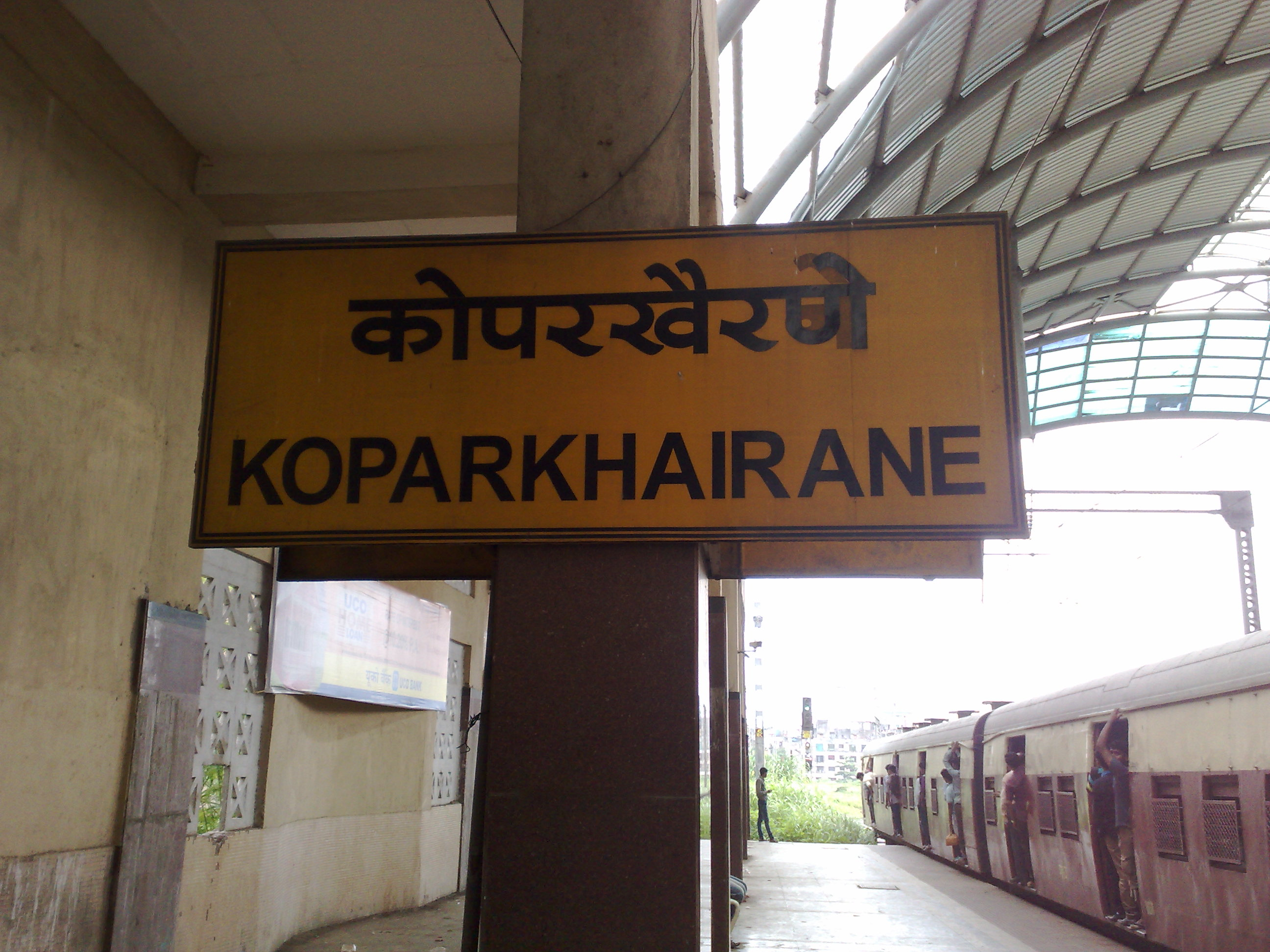 Stationboard - kopar khairane